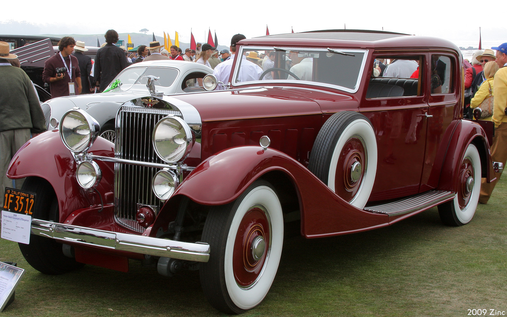 Pebble Beach Concours dElegance, Aug 16, 2009